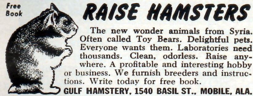 from Popular Science magazine, September 1950, this ad from Gulf Hamstery appeared on a page full of classified ads. This same ad appeared in other issues of this magazine and other magazines targeting a similar audience perhaps between 1948-1951. This ad appeared with no copyright notice in the magazine.